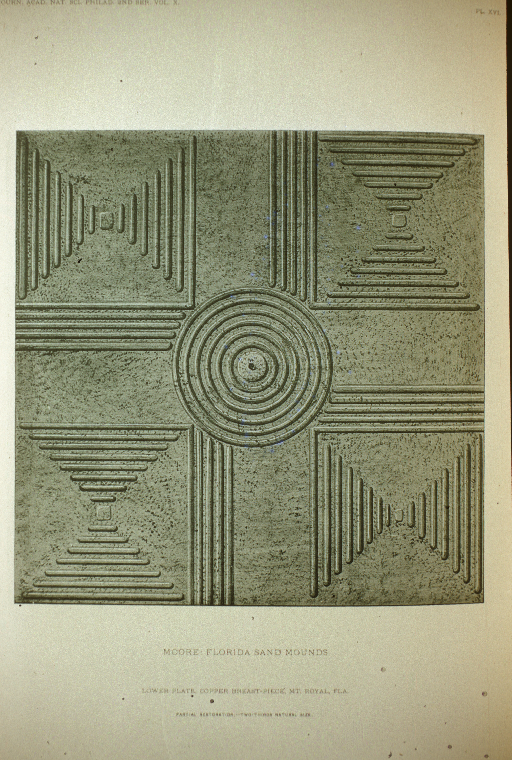 Copper plate of Mississippian culture style excavated by Clarence Bloomfield Moore from Mount Royal mound in Florida